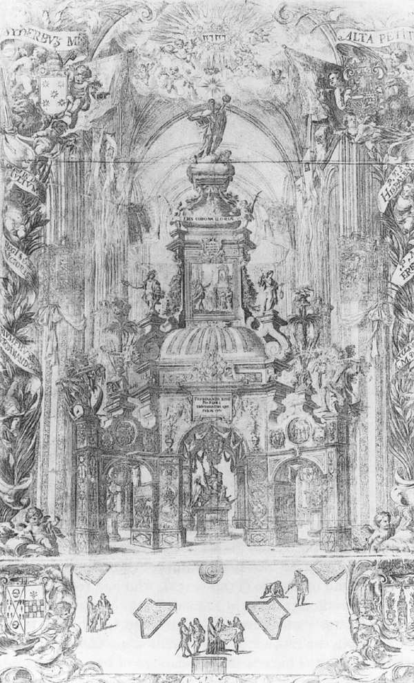 "Monument to Saint Ferdinand", Etching, 560 x 330 mm